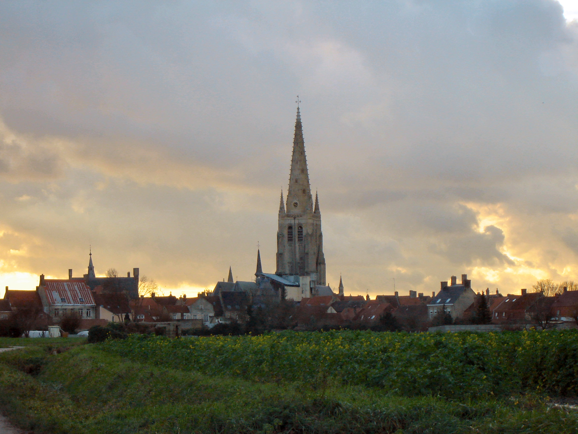 Hondschoote skyline. Hondschoote, departement du Nord, Nord-Pas-de-Calais, France